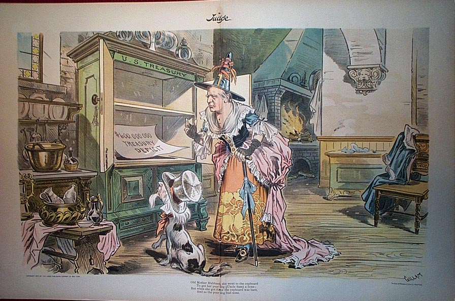 1897 Judge cartoon shows William McKinley as Old Mother Hubbard, and her dog as Uncle Sam. They find the cupboard is bare -- the US treasury in deficit.